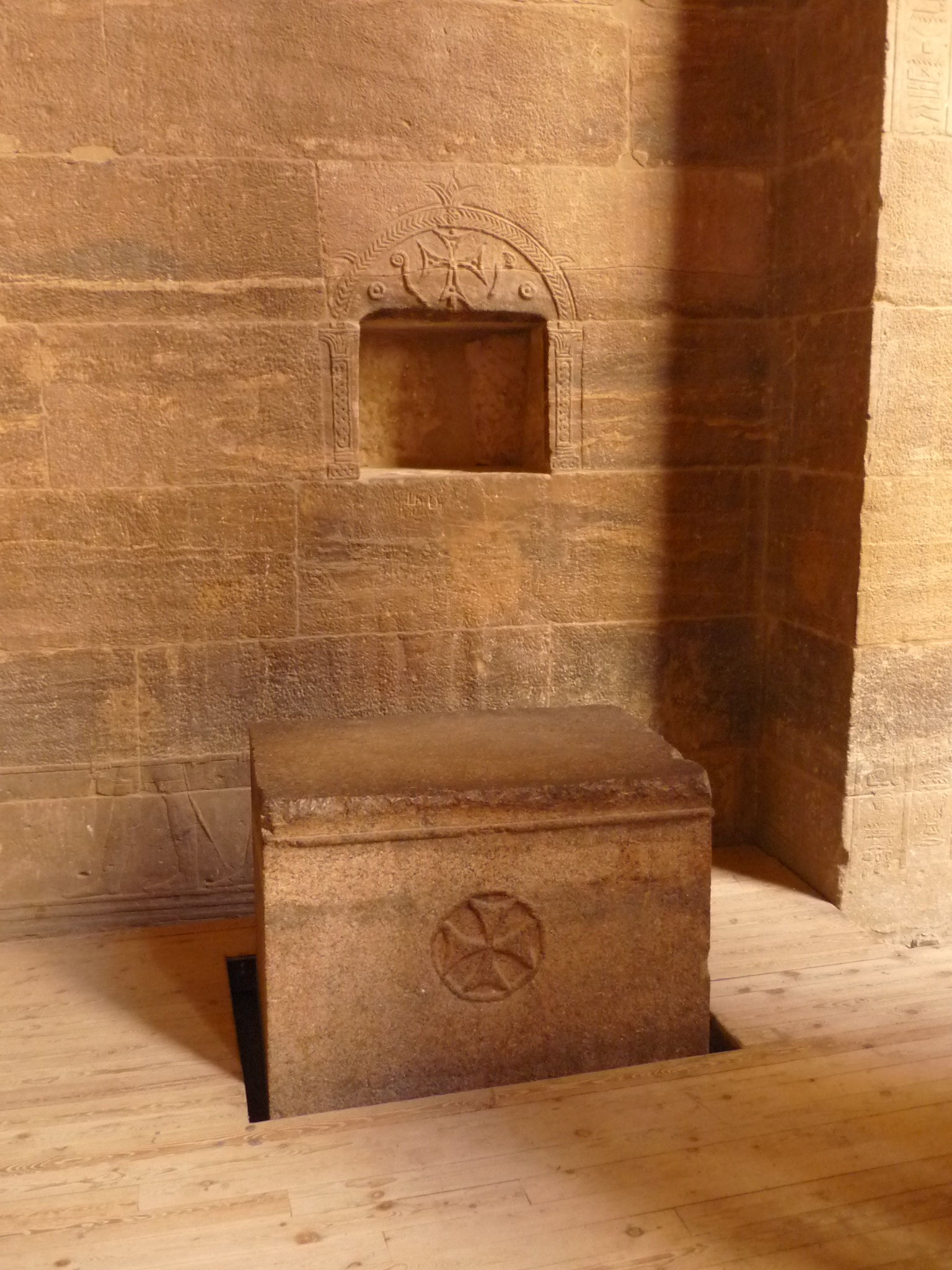 Copt altar, Isis Temple, Philae Island, Egypt